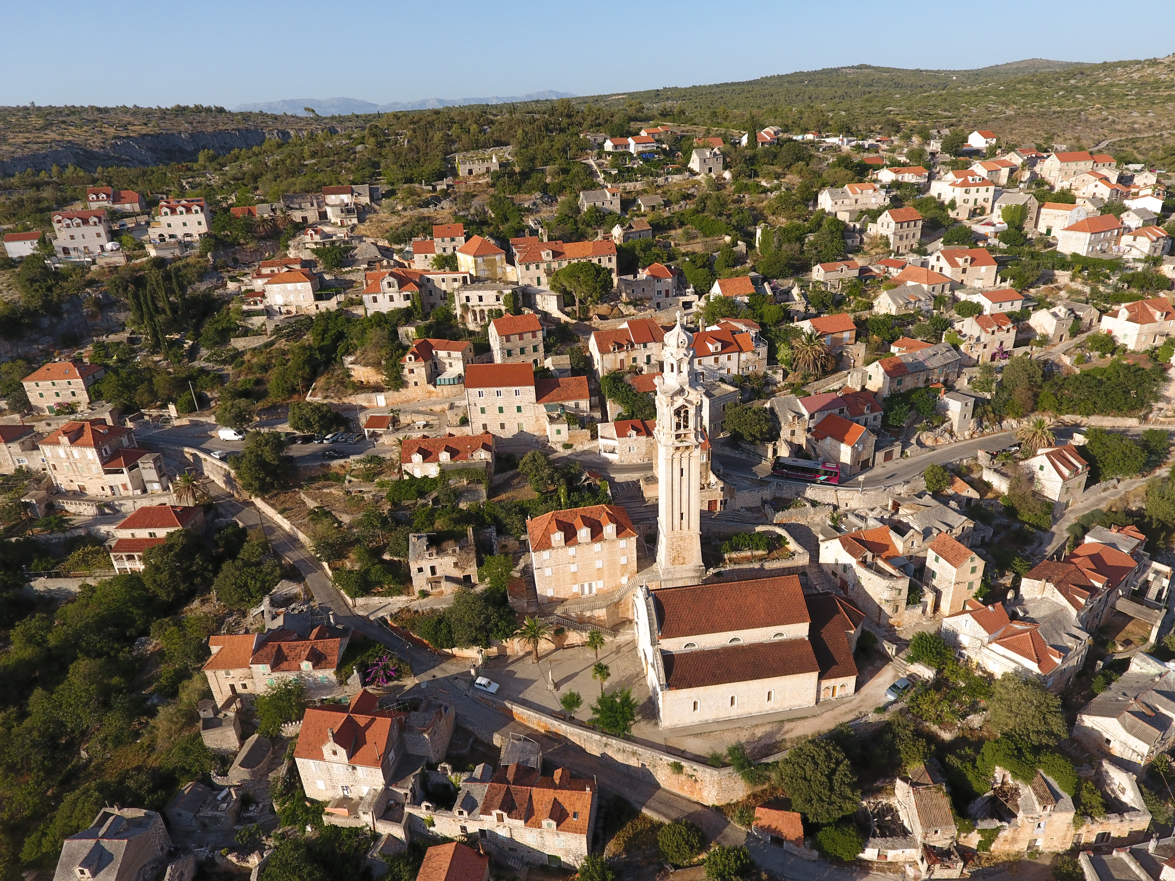 View of Ložišća village, Brač Island, Croatia a july afternoon.